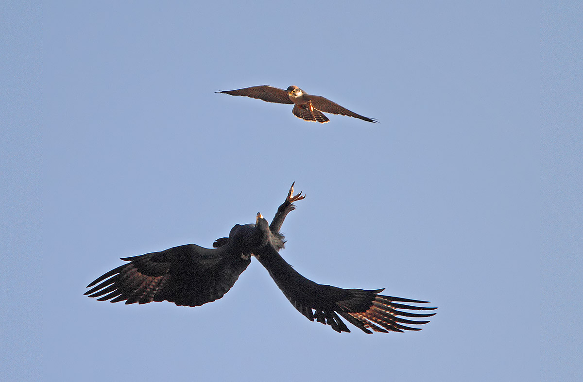 The cliffs at Baringo are a fantastic area for birds -especially at first light. A pair of Lanner Falcons were nesting at one end of the cliffs and this massive female Verreaux's Eagle drifted into their airspace. The female Lanner took to the air and quickly gained height then she flapped twice twisted onto her side then plunged in a deep stoop striking the circling eagle on the back of the head. The female eagle got a sore one and as the Lanner approached again she flipped upside down and clearly indicated there would be no second chance! Lanner Falcons are powerful agile predators of birds and are about the size of Peregrine. Verreaux's Eagle is a large powerful hunter of mammals and large birds -mainly favouring hyrax (Dassies) but also taking Guineafowl, Francolin, Kilspringers and other small antelope. Image taken at the Baringo Cliffs, Lake Baringo, Kenya.